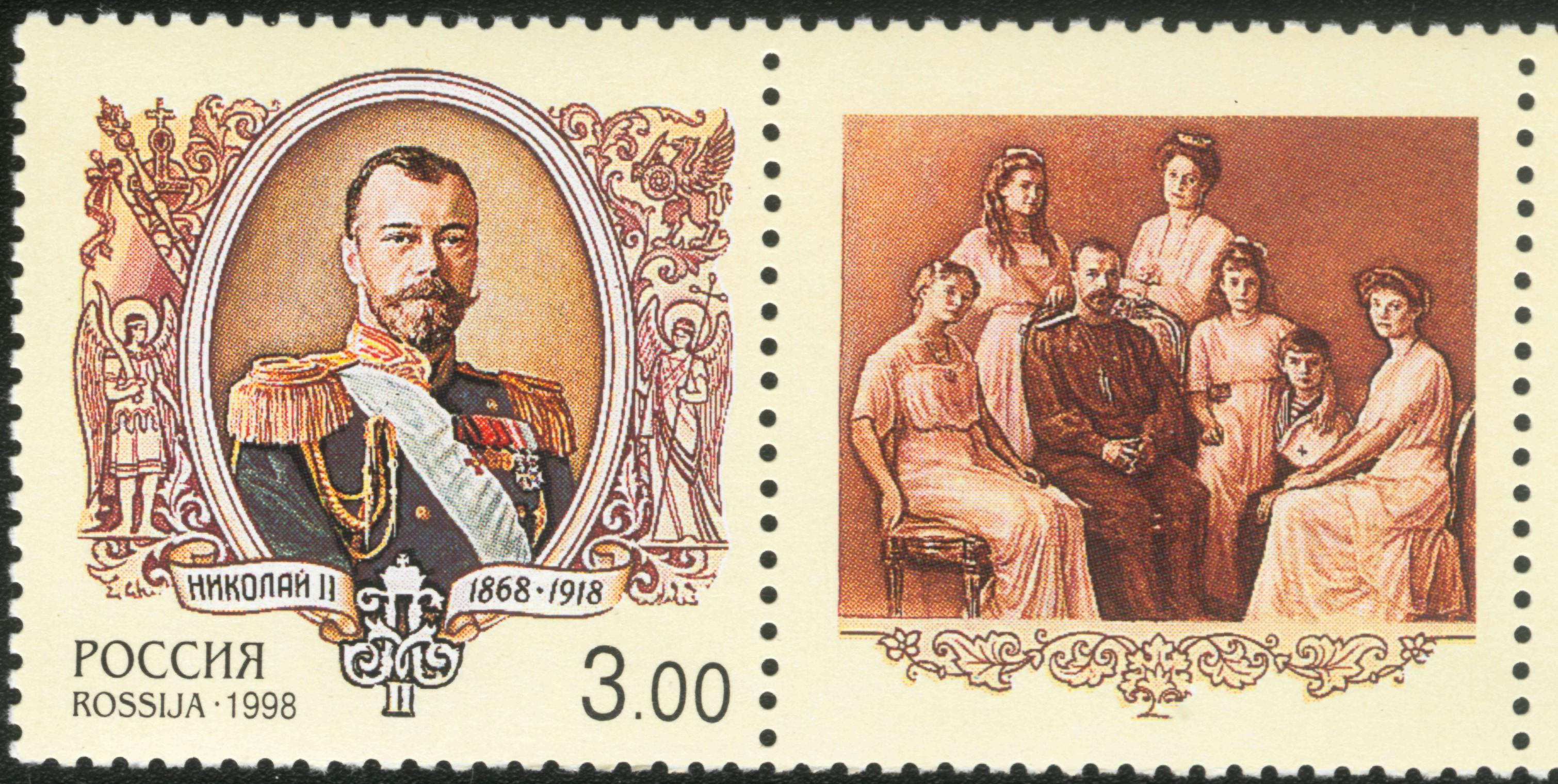 Stamps of Russia. History of the Russian State (continuation of series).Emperor Nikolay II (1868-1918), 1998